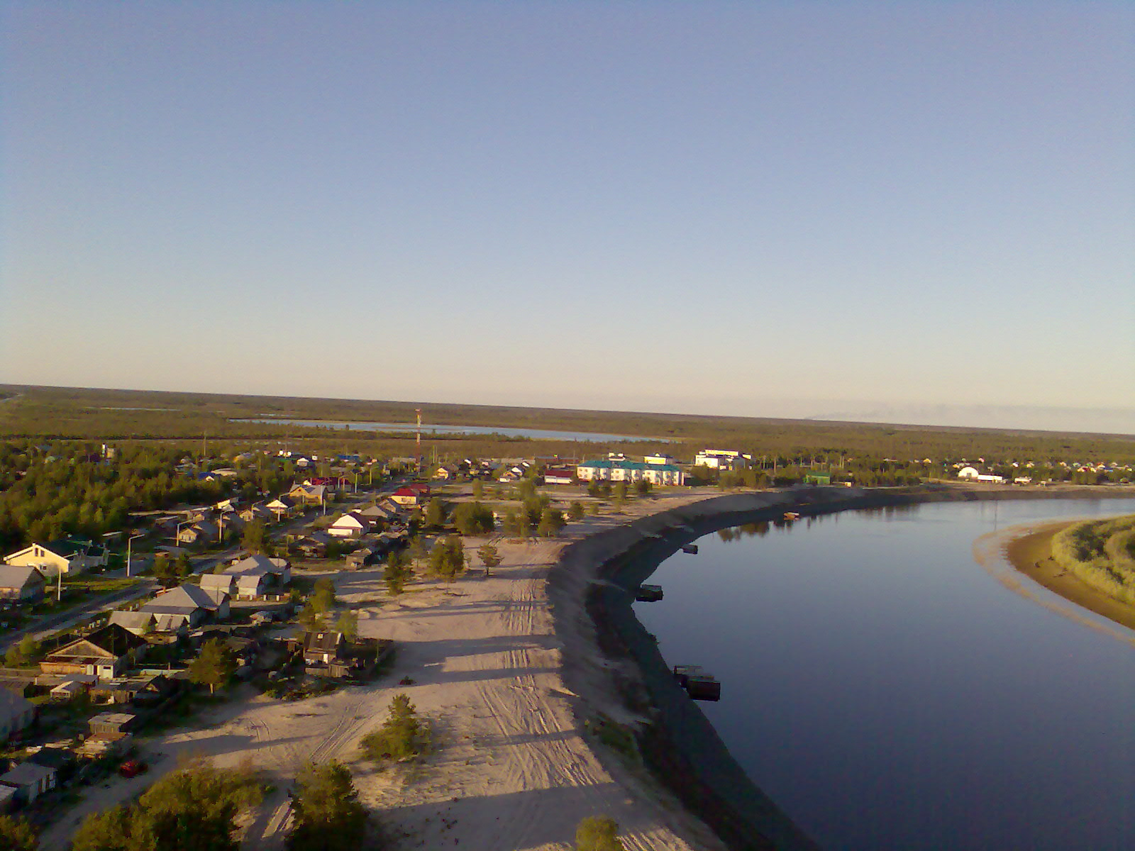 View of the village of Varyogan from the tower.